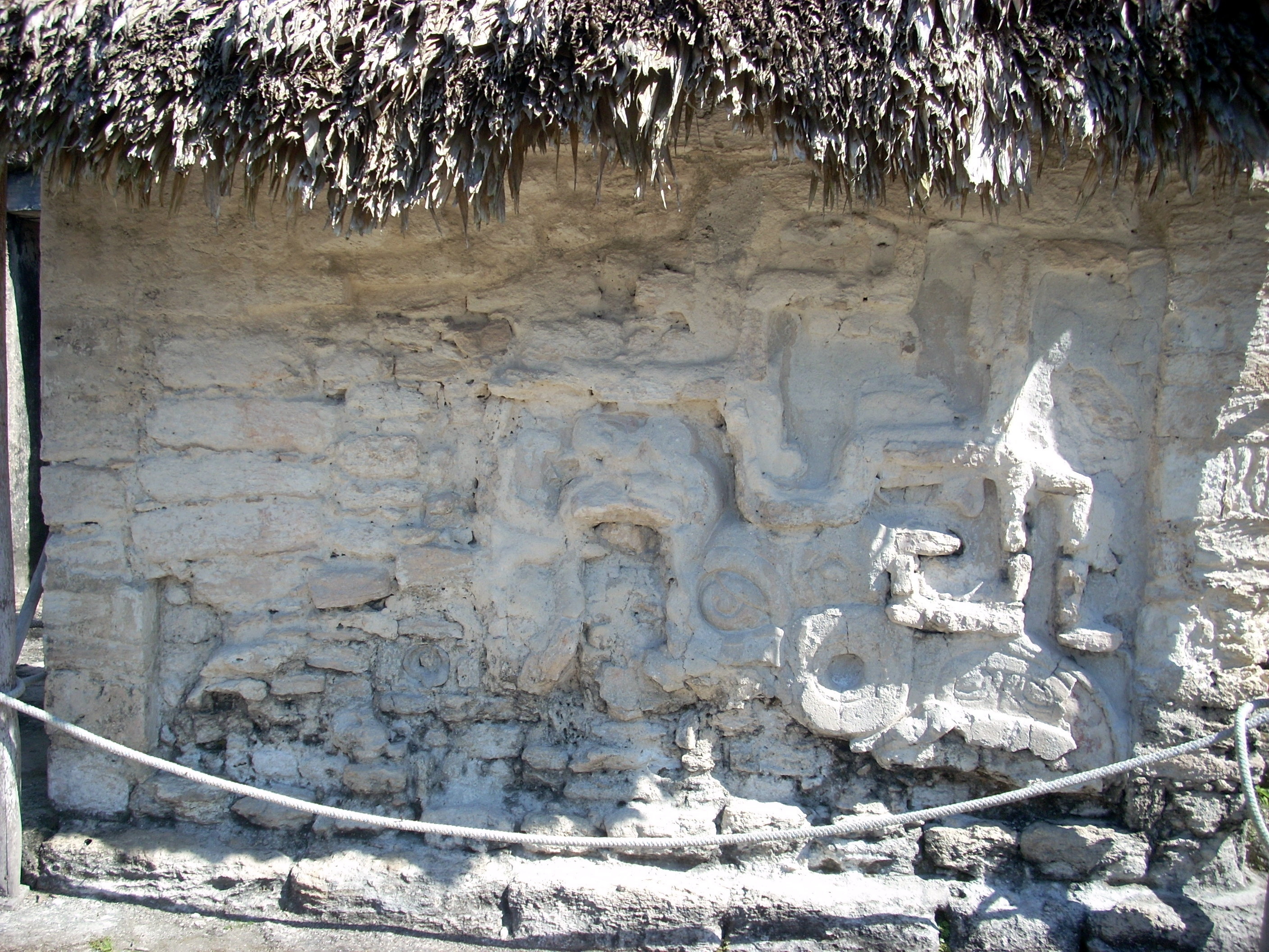 Stucco panel from the oldest phase of Temple 33 in the North Acropolis of Tikal, Guatemala. This panel decorated the outer wall of the temple shrine, to the right of the doorway.